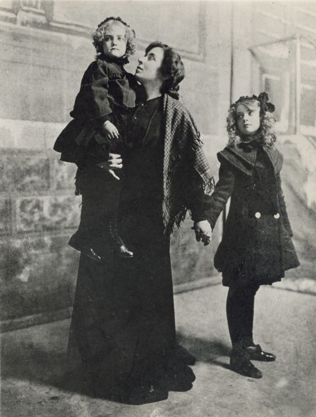 Mary Robinson McConnell (Mary Gish) carries her daughter Dorothy Gish and holds her older daughter Lillian Gish by the hand in front of theatrical scenery, c. 1900.